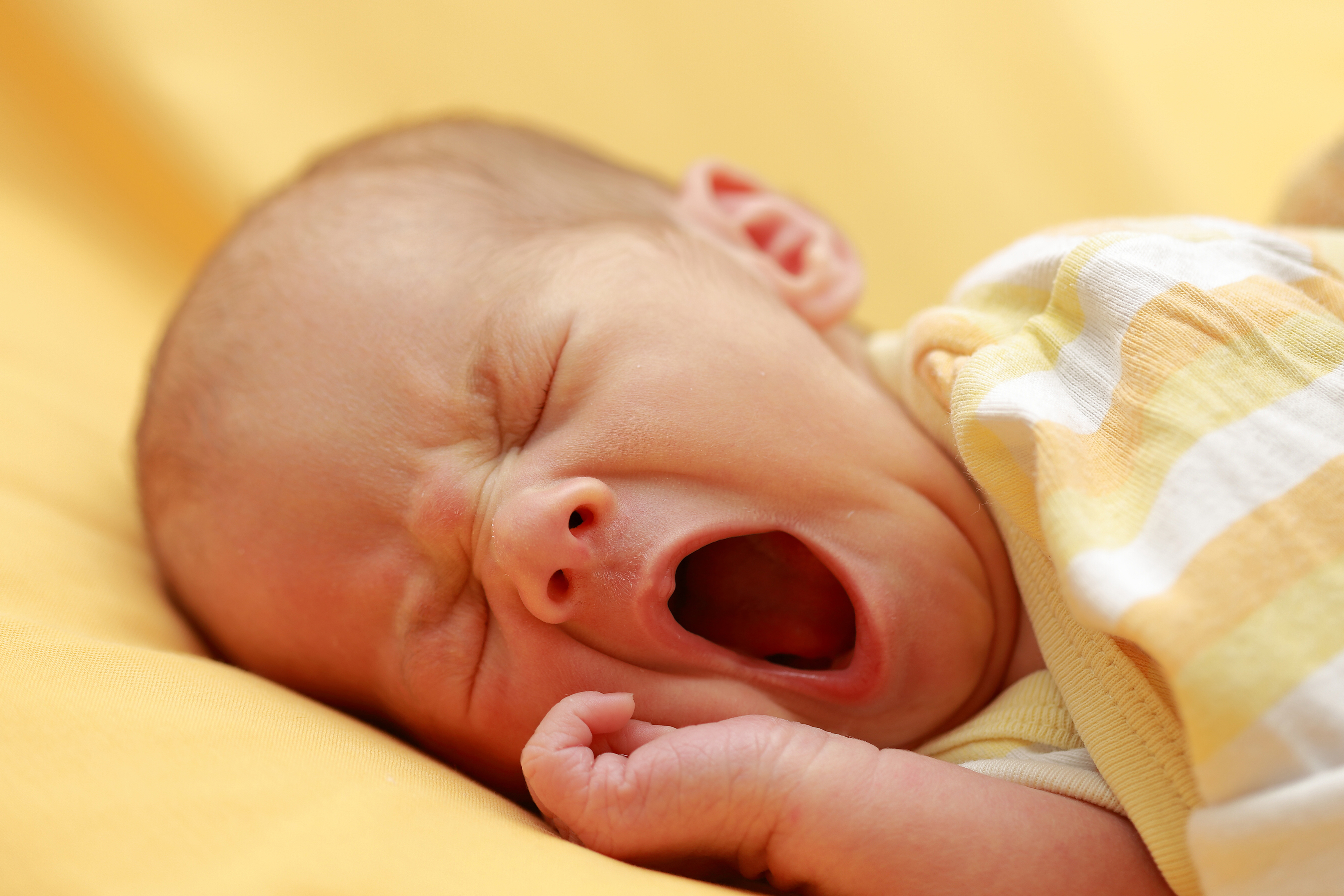 A female neonate / newborn baby girl, yawning